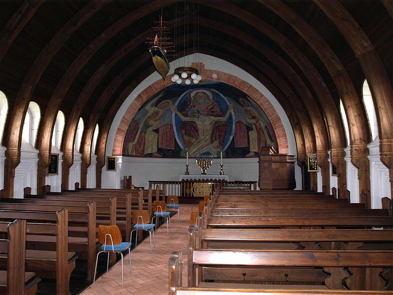 Gedser Kirke (church)